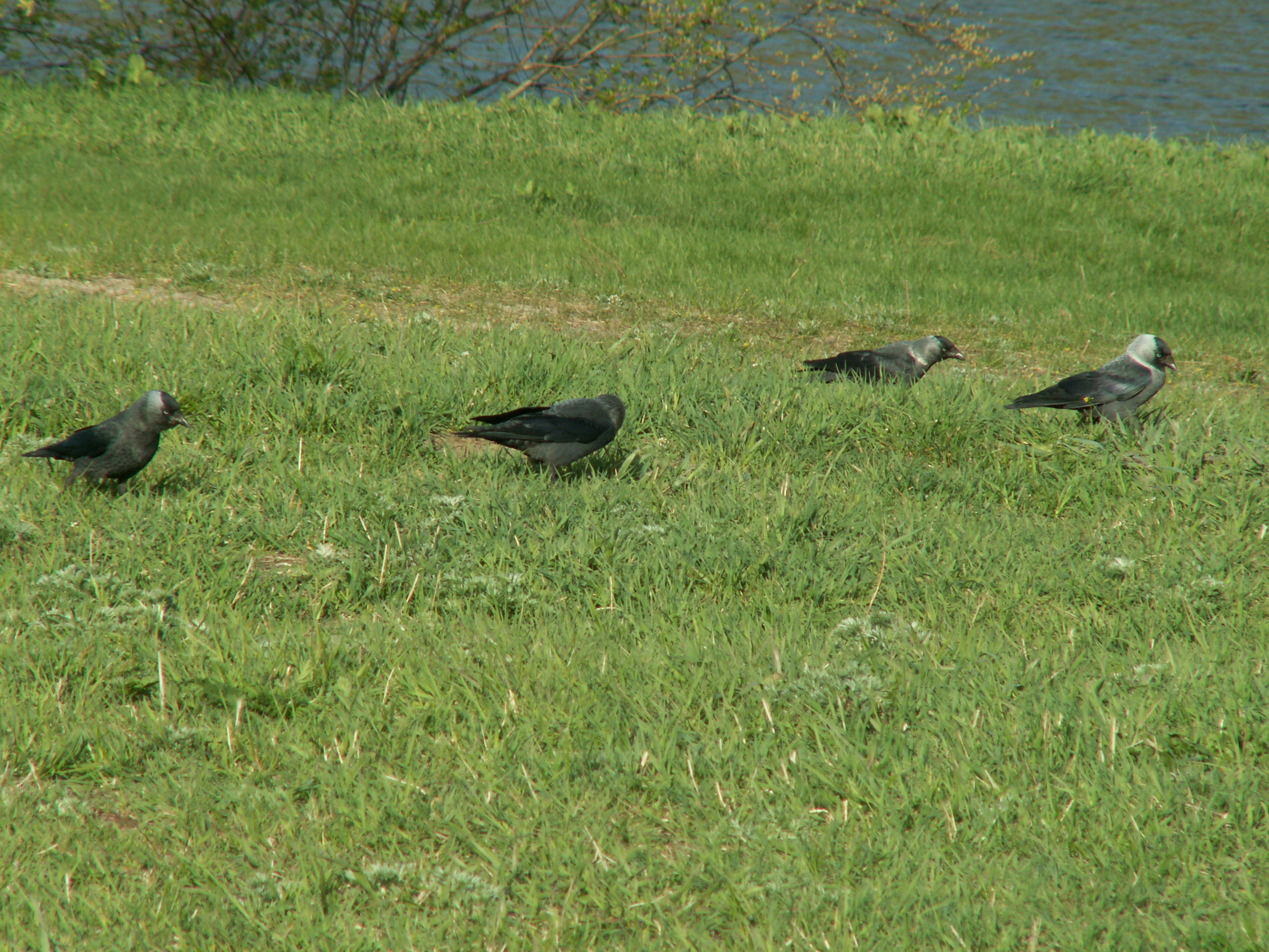 4 jackdaws (Corvus monedula subspecies soemmerringii) Photo by User:Monedula Date: 2007-05-14 Place: Yaroslavl, Russia